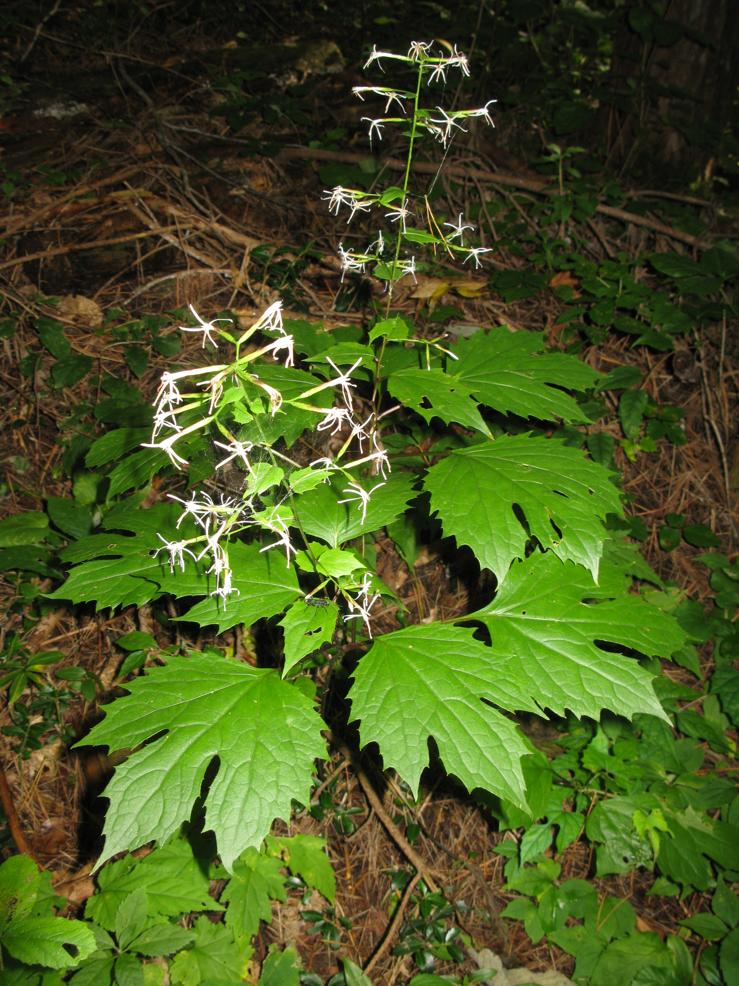 Pertya triloba, Nakadori area, Fukushima pref., Japan